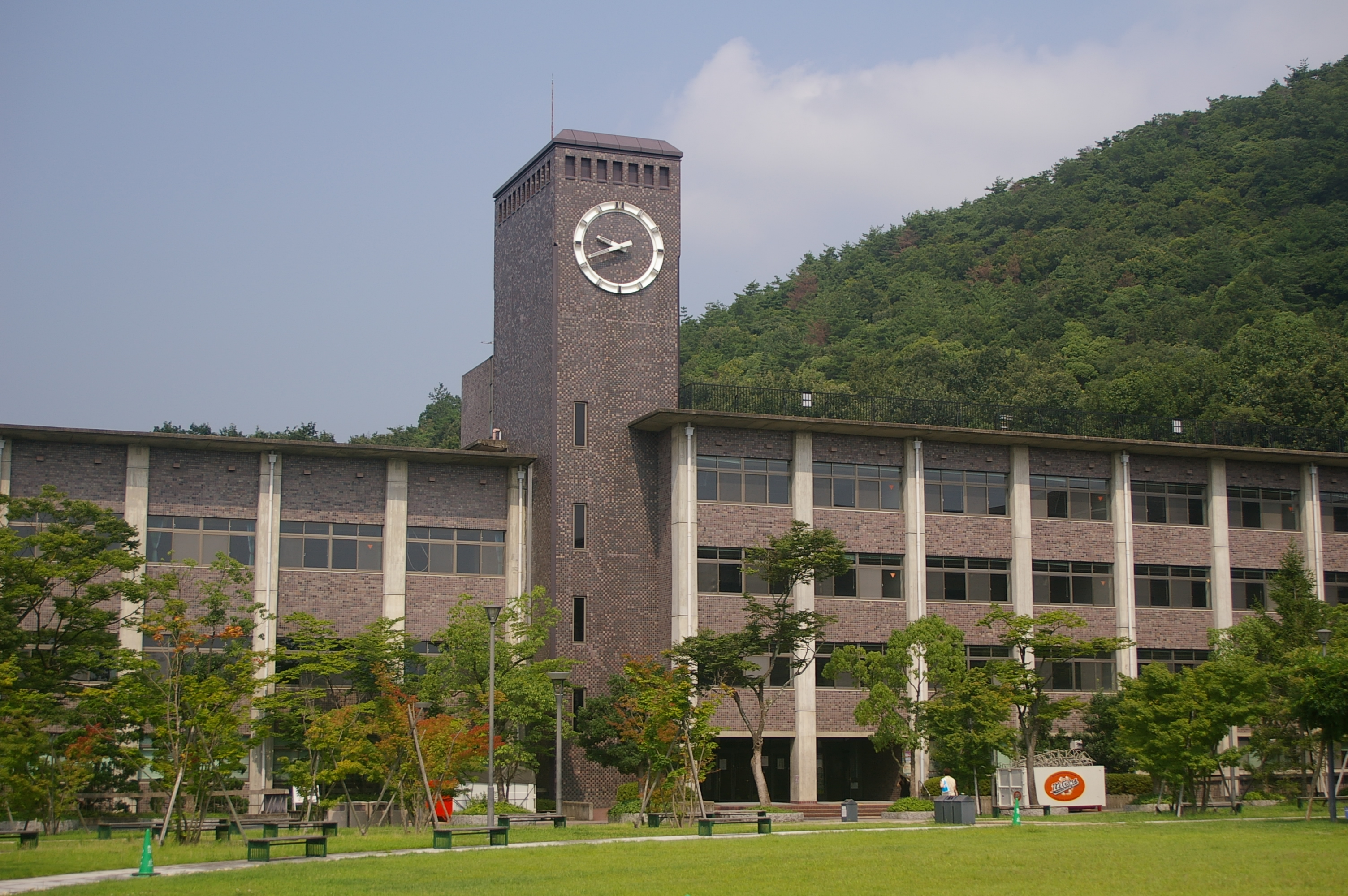 Photograph of "Zonshinkan", one of symbolic buildings in Kinugasa Campus, Ritsumeikan University, Kita-ku, Kyoto, Kyoto Prefecture, Japan.